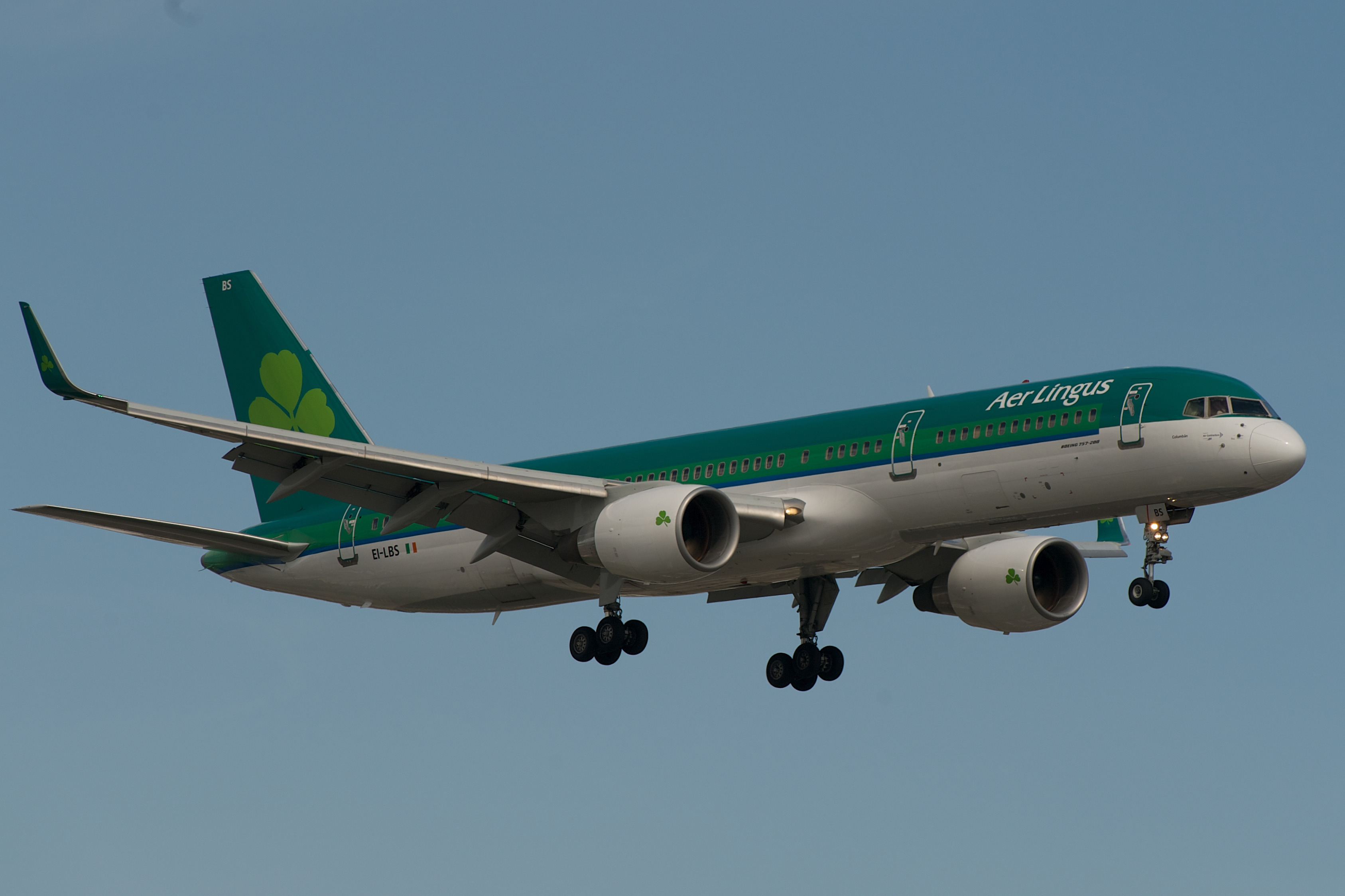 'Columbán' on short final, Toronto-Pearson YYZ. Operated by Air Contractors.